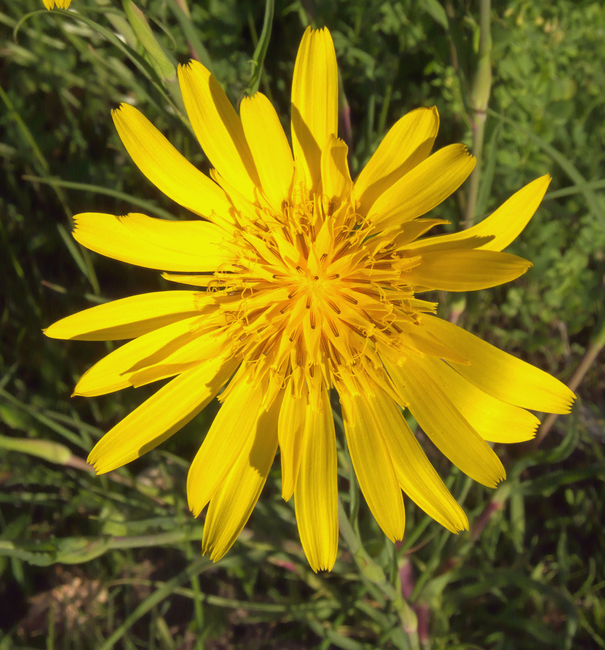 Tragopogon pratensis subsp. orientalis